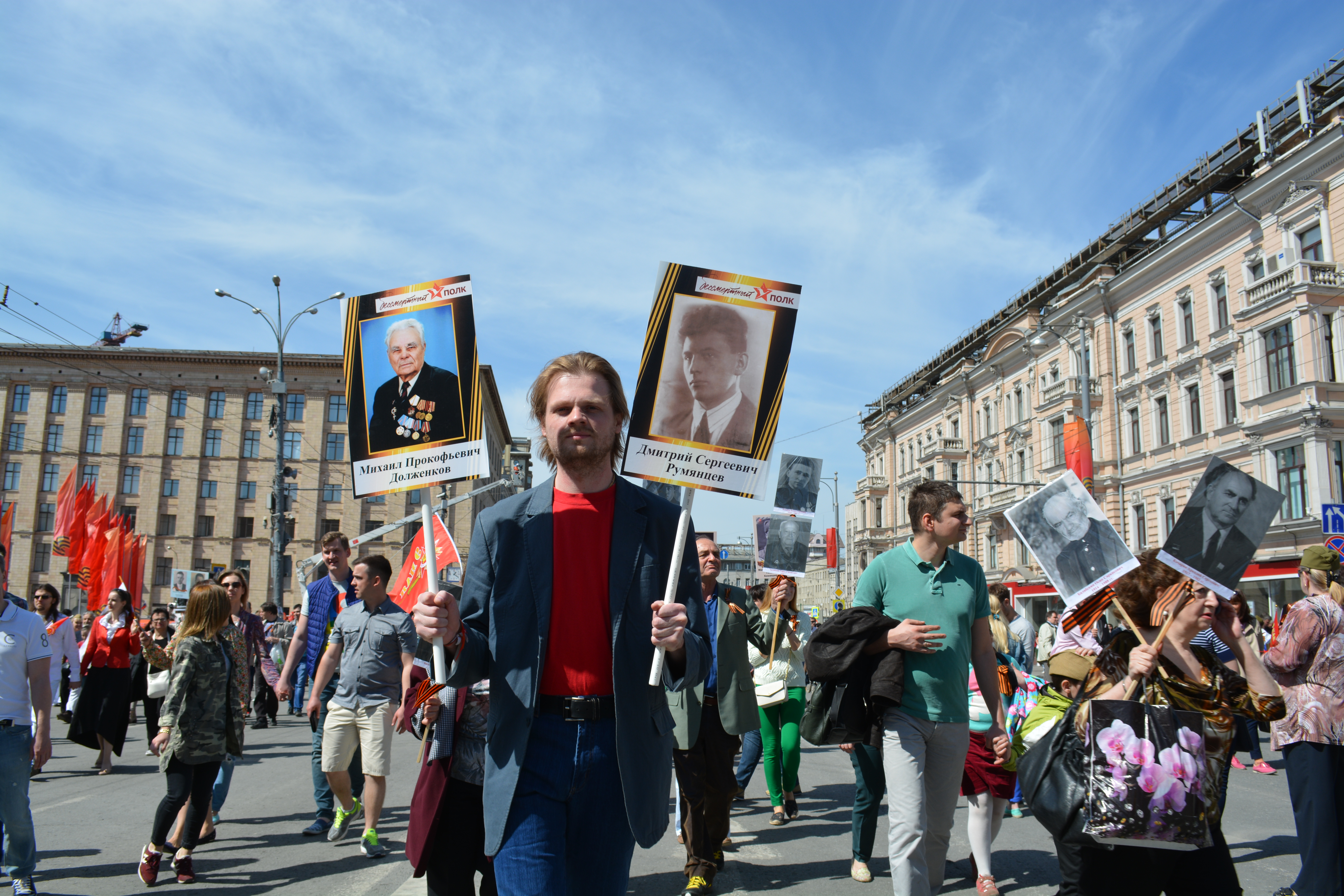 Immortal Regiment demonstration in Moscow (2015-05-09)